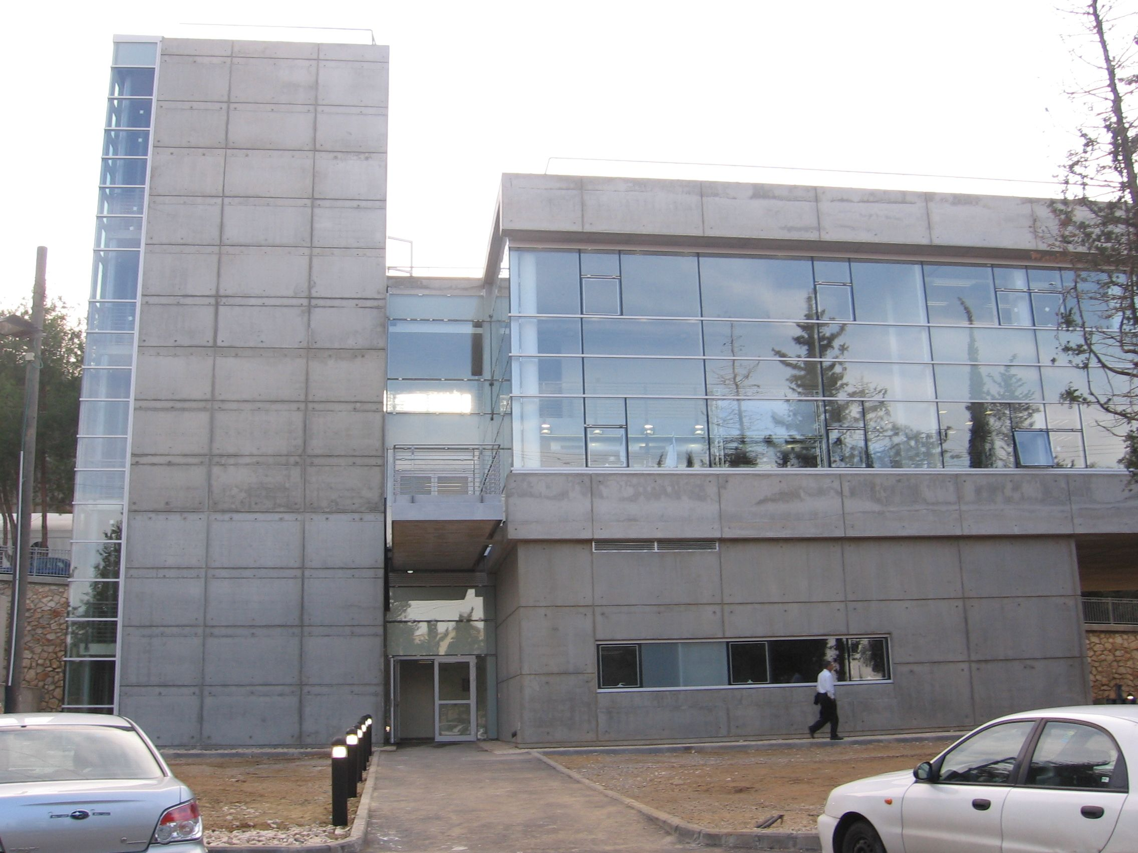 The back side of the Asher Space Research Institute in the Technion - Israel institute of technology.